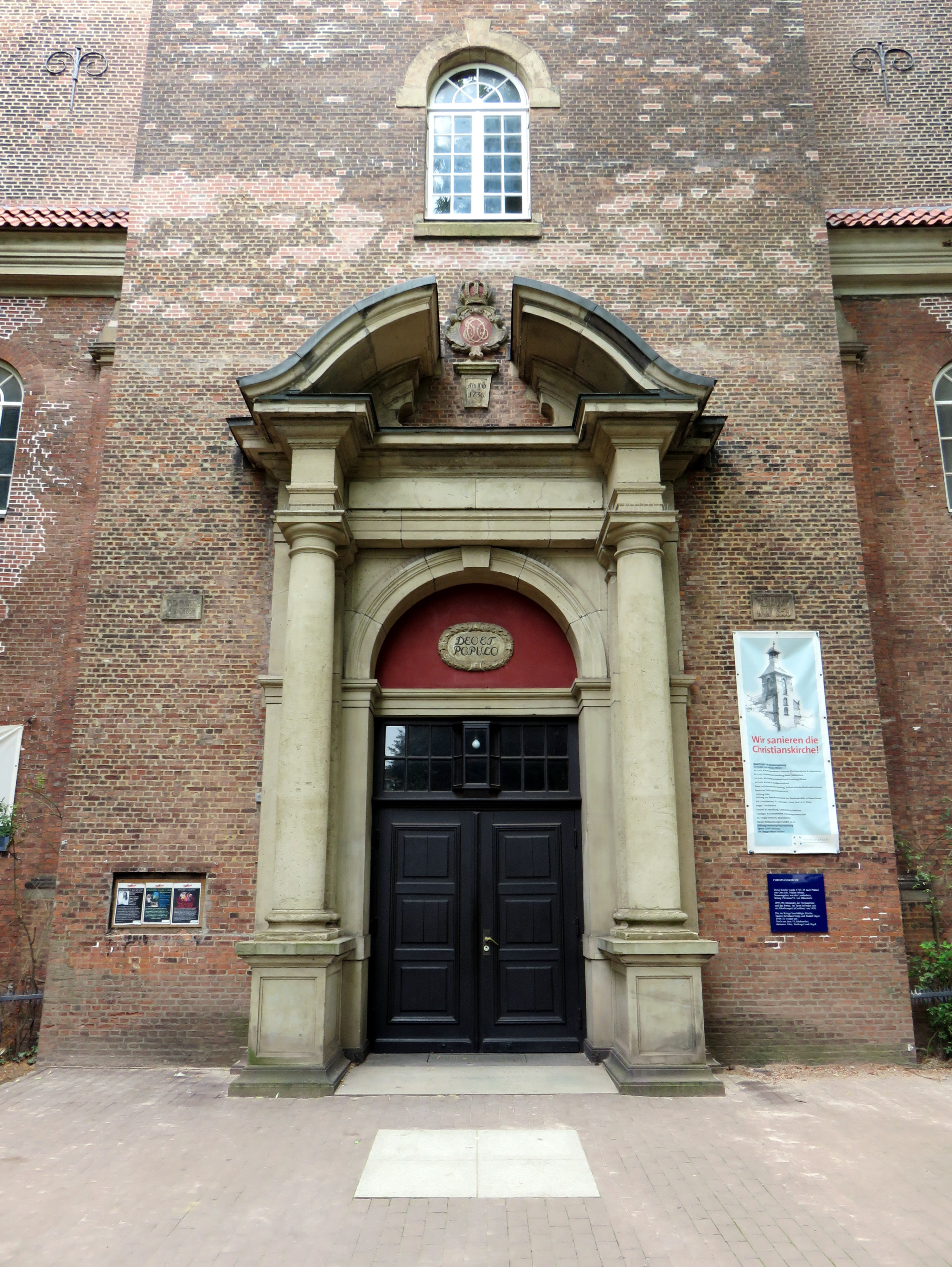 West portal of 'Christianskirche' in Hamburg-Ottensen with information board.